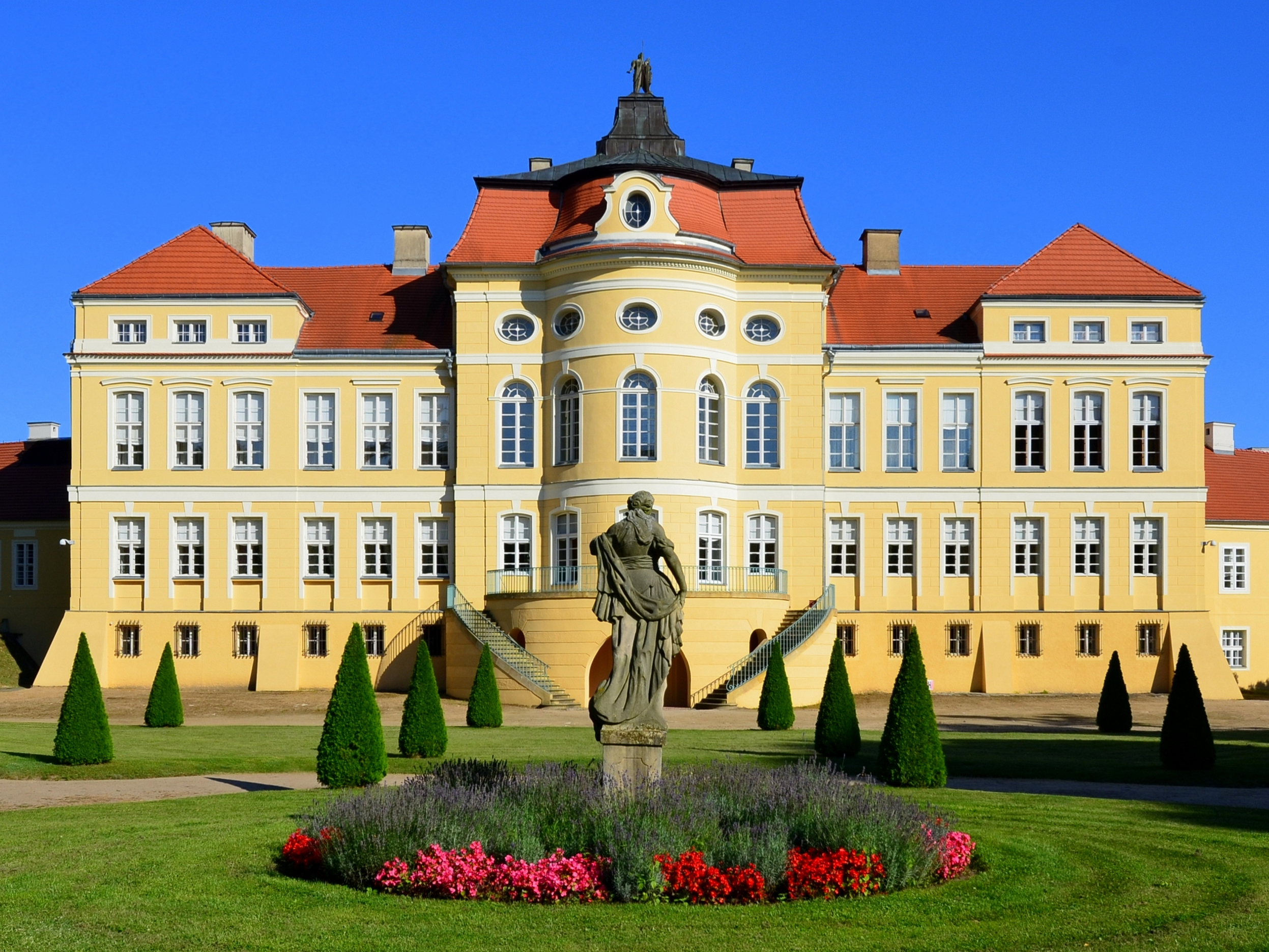 Palace in Rogalin